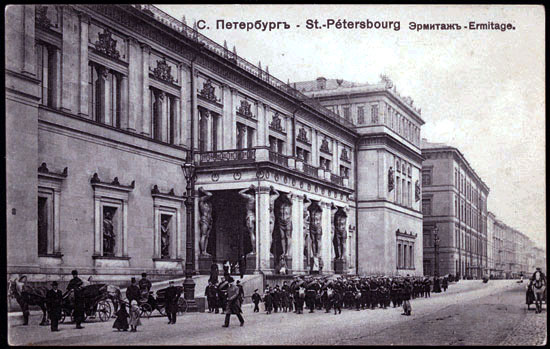 Saint Petersburg (Russia), Palace Square, Winter Palace. The architect is Leo von Klenze. Public domain from the Russian National Library Found here.